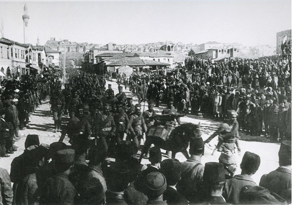 Turkish troops marching in the Taşhan Square (present-day: Ulus Square), Ankara.